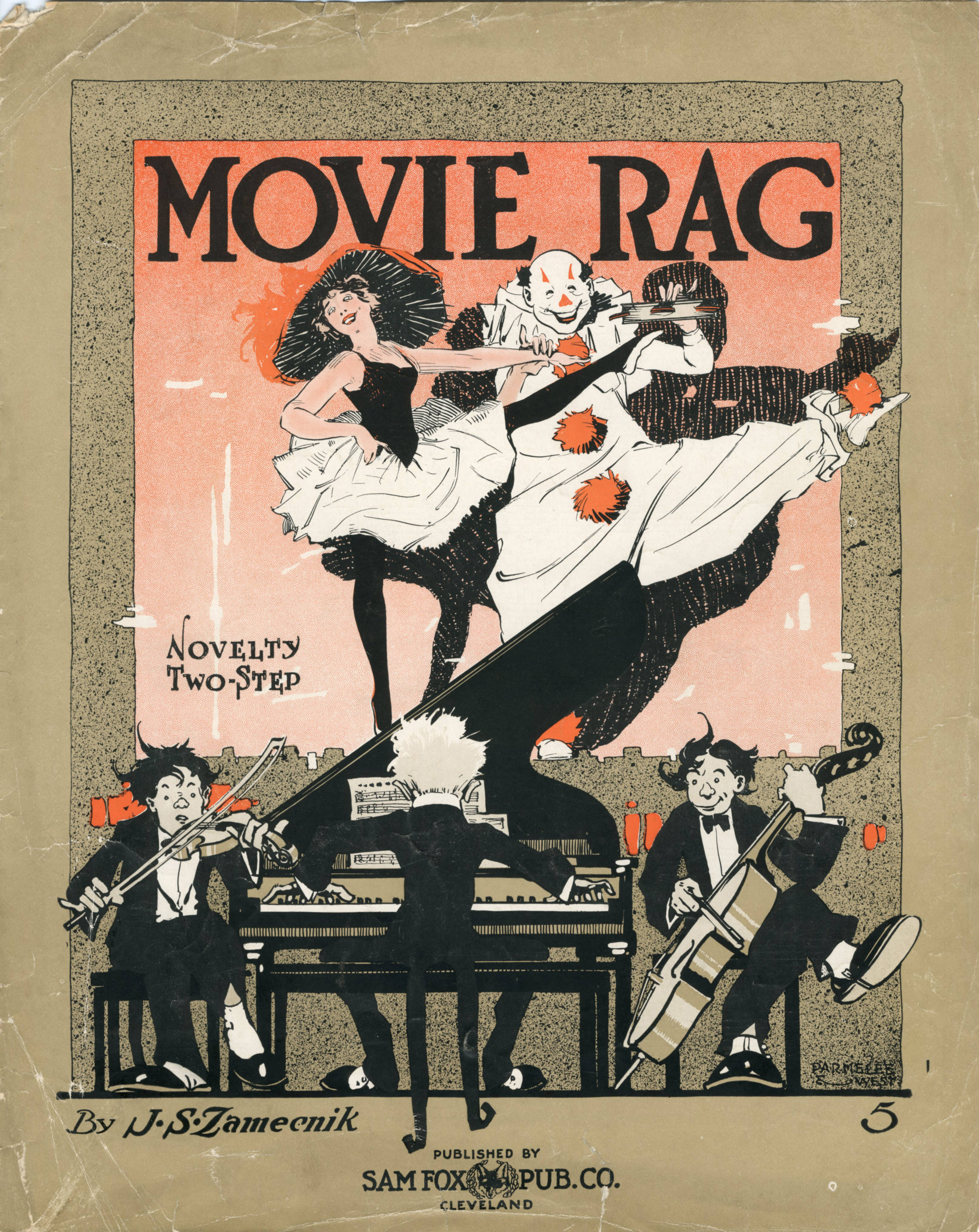 Sheet music cover: "Movie Rag : Novelty Two Step" 1 piano score (5 p.) ; 35 cm. Illustrated cover / Parmelee & West. Facsimiles only of pages 3 and 4.